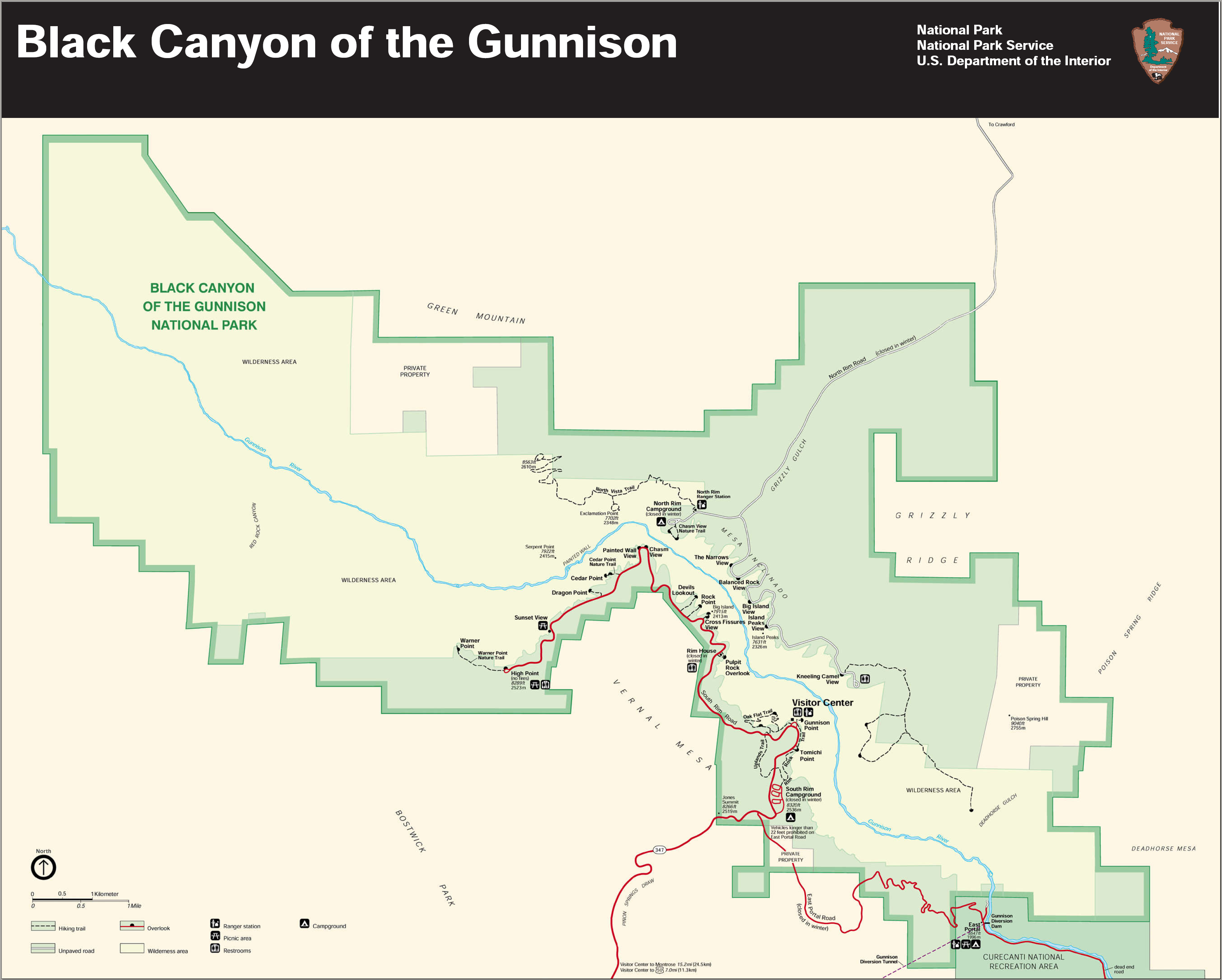 Map of Black Canyon of the Gunnison National Park